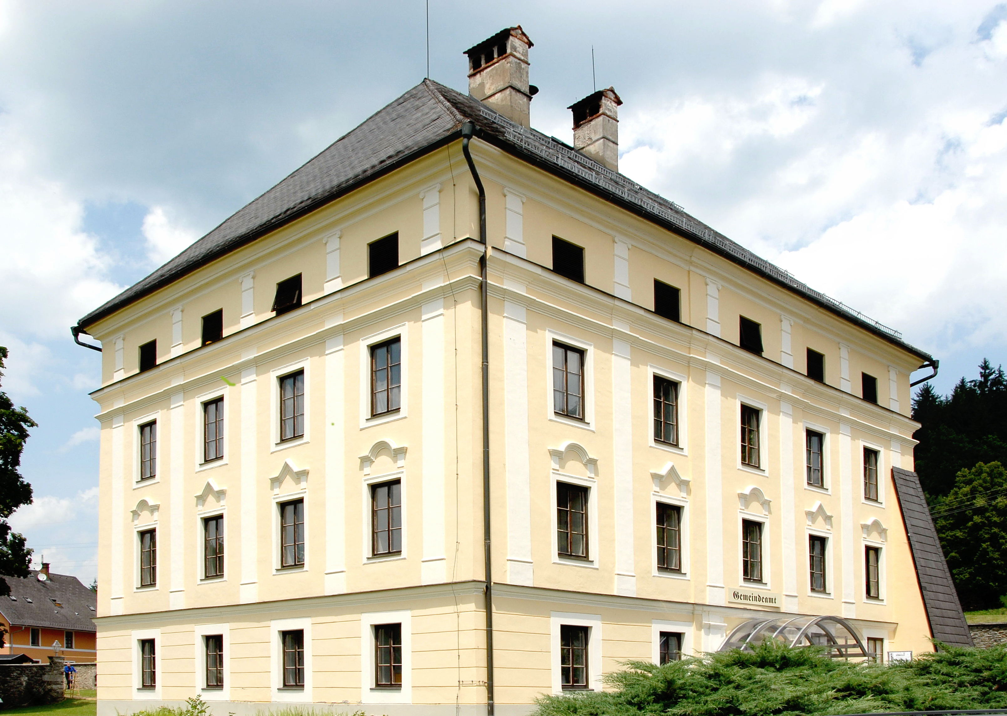 Municipal office and castle of Keutschach, municipality Keutschach am See, district Klagenfurt Land, Carinthia, Austria, EU